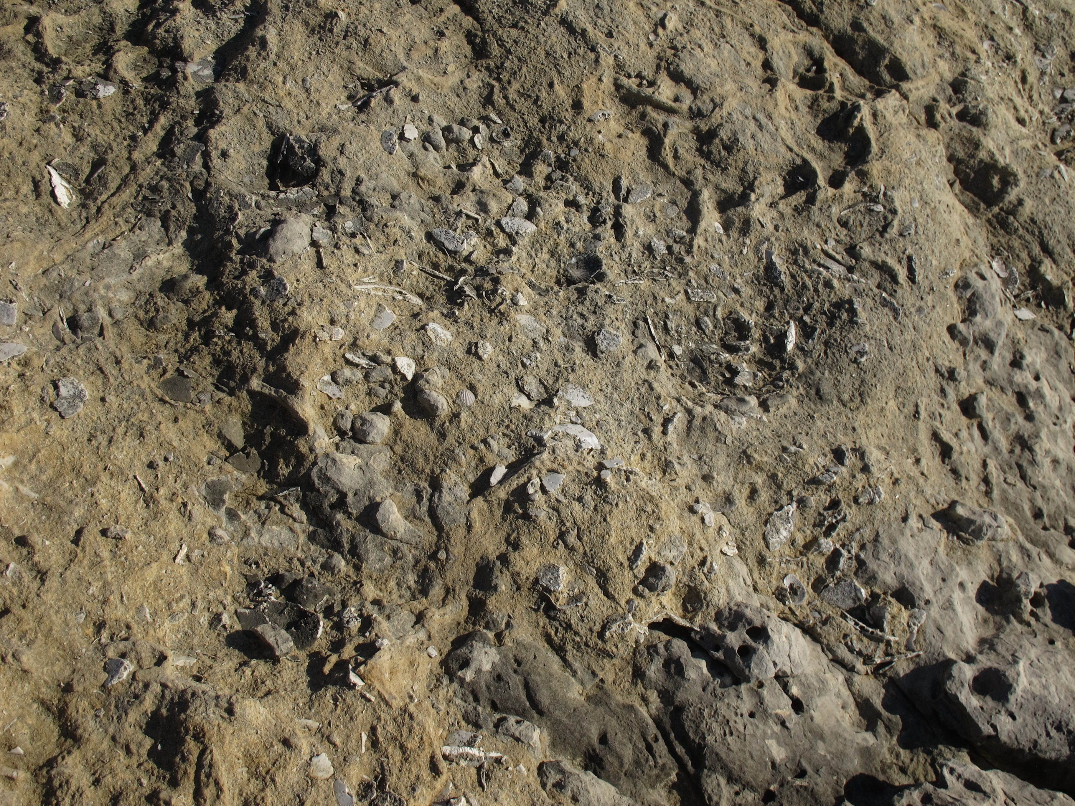 Hardground developed at the top of the Lower Coralline Limestone Formation, Gozo. Contains limestone clasts and fossil fragments of Scutella subrotunda and bivalves